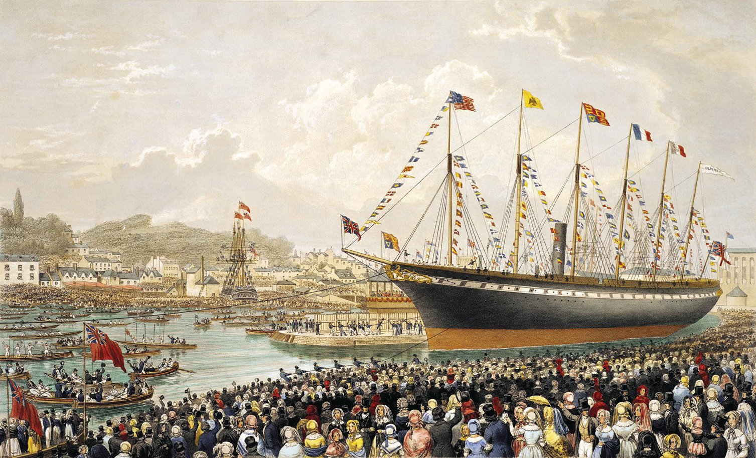 Launch of the SS Great Britain, the revolutionary ship of Isambard Kingdom Brunel, at Bristol in 1843 This picture is the copyright of the Lordprice Collection and is reproduced on Wikipedia with their permission.